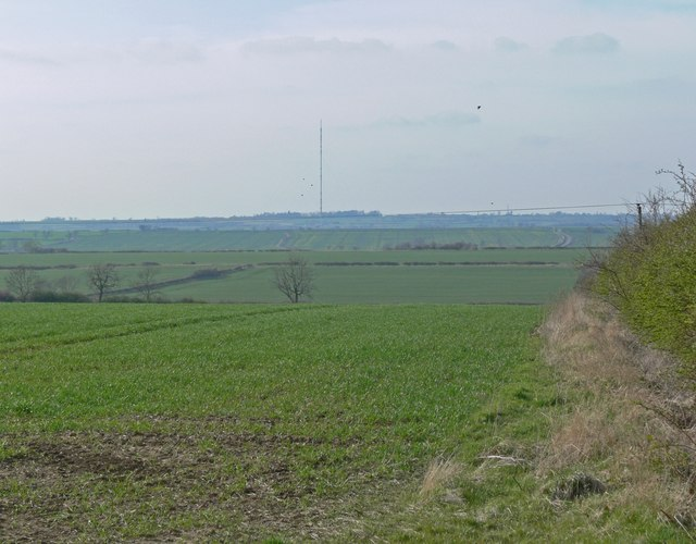 Gently rolling Leicestershire countryside North of the village of Wymondham. The 290 metre high Waltham on the Wolds Mast is visible on the horizon.